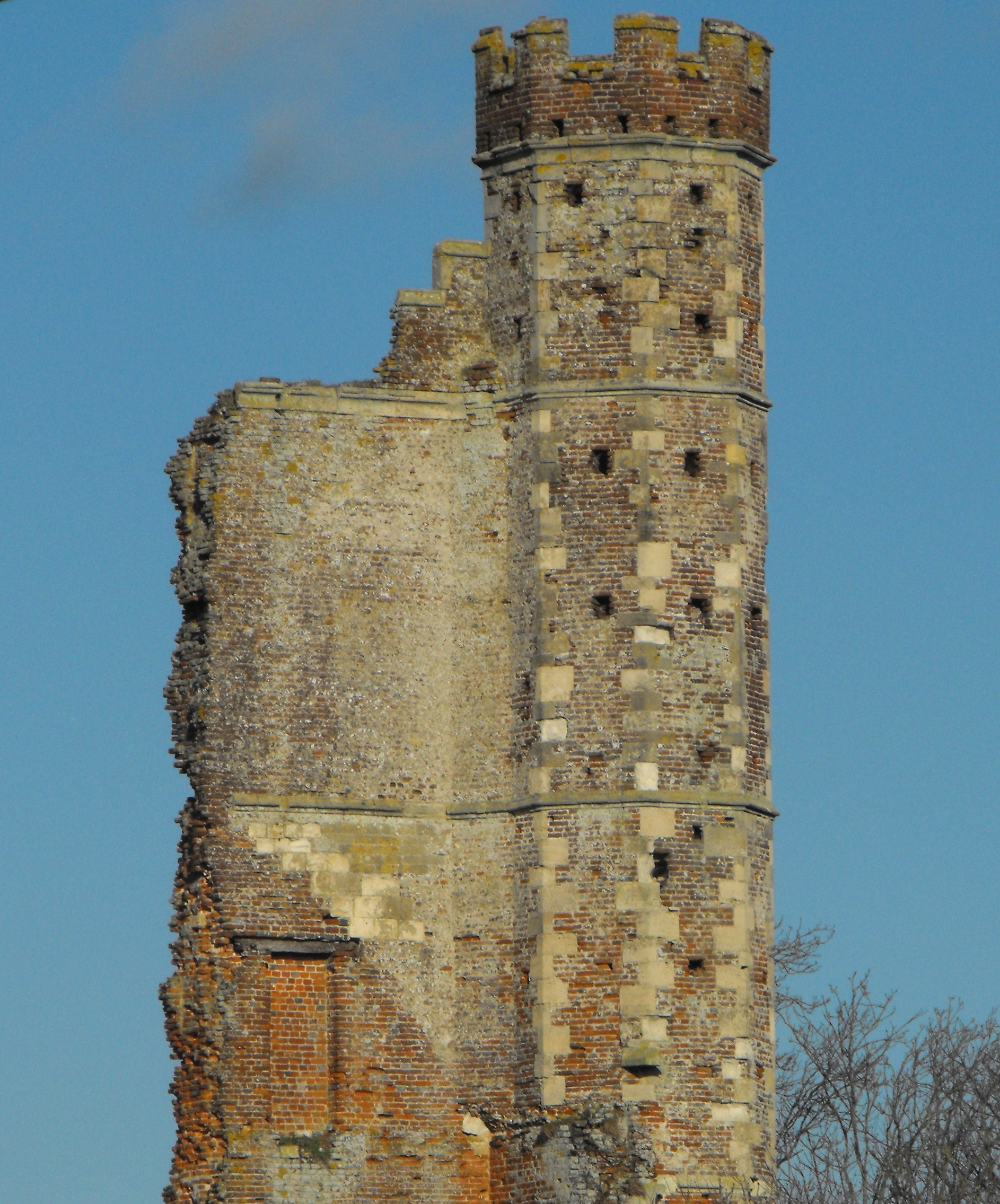 The remains of Warblington Castle in Hampshire.